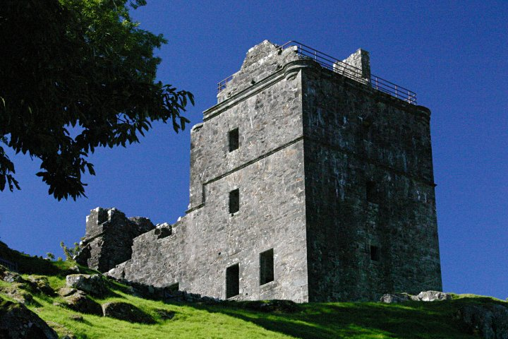 Photograph of Carnassarie Castle, Argyll, taken by Martin McCarthy (Tumulus) 2004